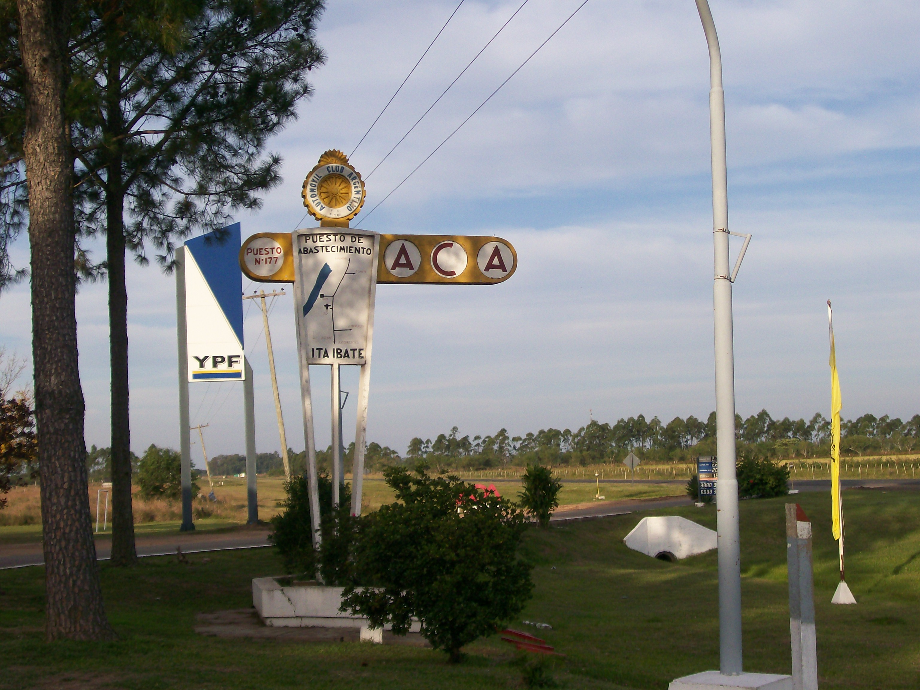 Automóvil Club Argentino and YPF service station in Itá Ibaté, Corrientes, Argentina, over National Road 12 (Argentina).